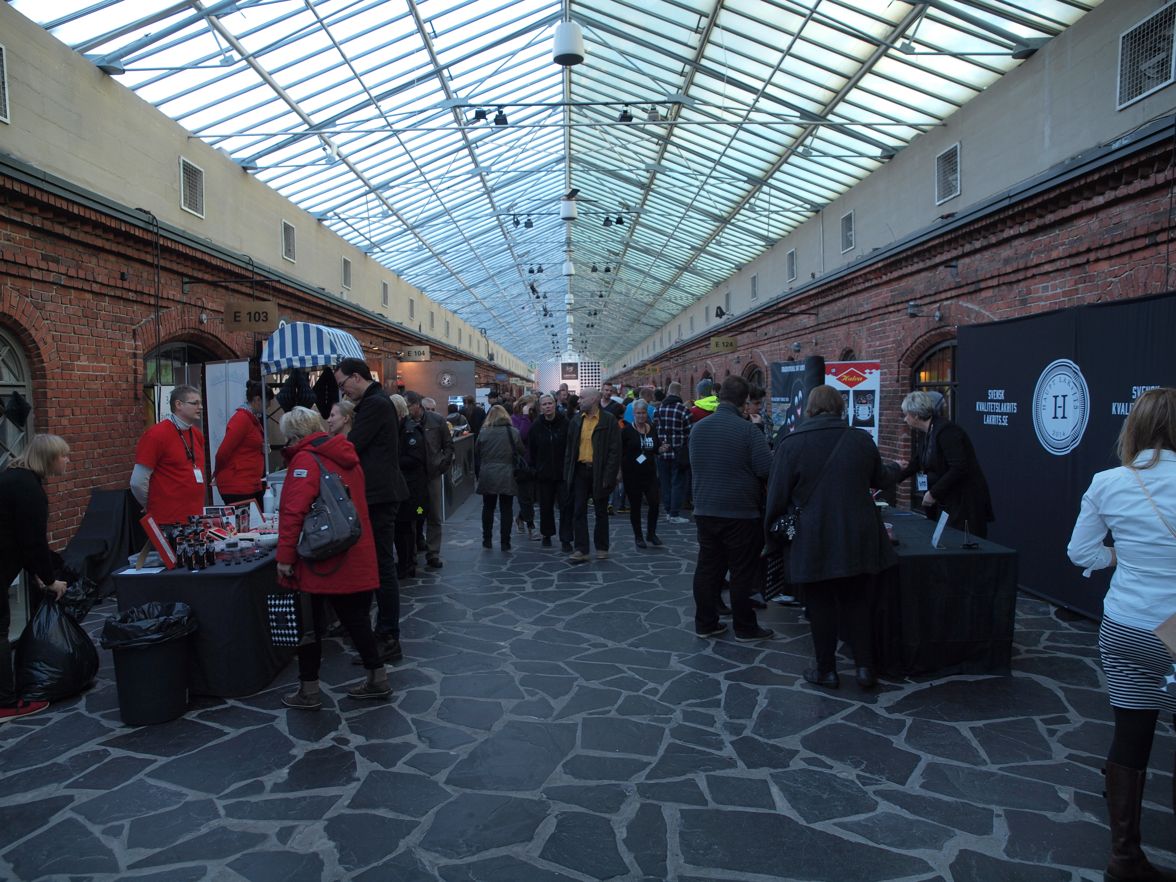 The interior of the Wanha Satama exhibition centre in Katajanokka, Helsinki, Uusimaa, Finland, during the annual liquorice and salmiak festival. The building is only open to the public during exhibitions.